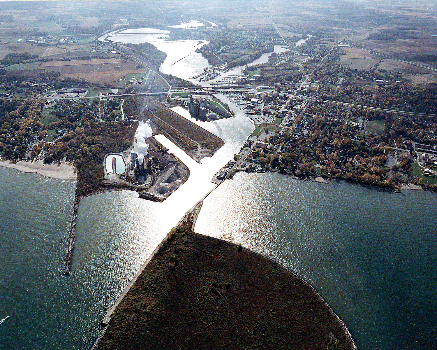 Aerial view of the harbor at Huron, Ohio, USA. The U.S. Army Corps of Engineers constructed the Confined Disposal Facility (CDF) and dredges this harbor yearly. The Confined Dike Disposal remains presently unused for dredged materials because the river has no polluted materials left.